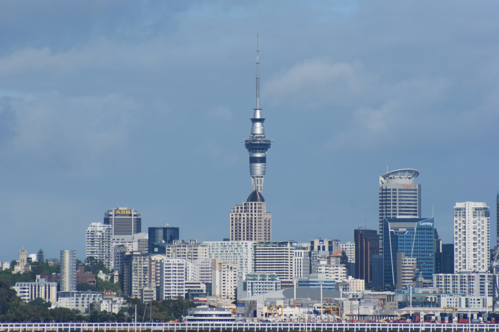 Auckland City Skyline